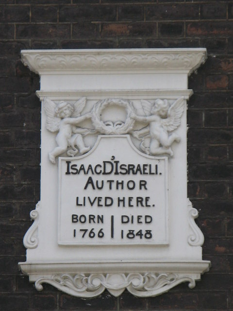 Plaque re Isaac D'Israeli, 6 Bloomsbury Square, WC1. The location of this plaque is shown in 1304584.